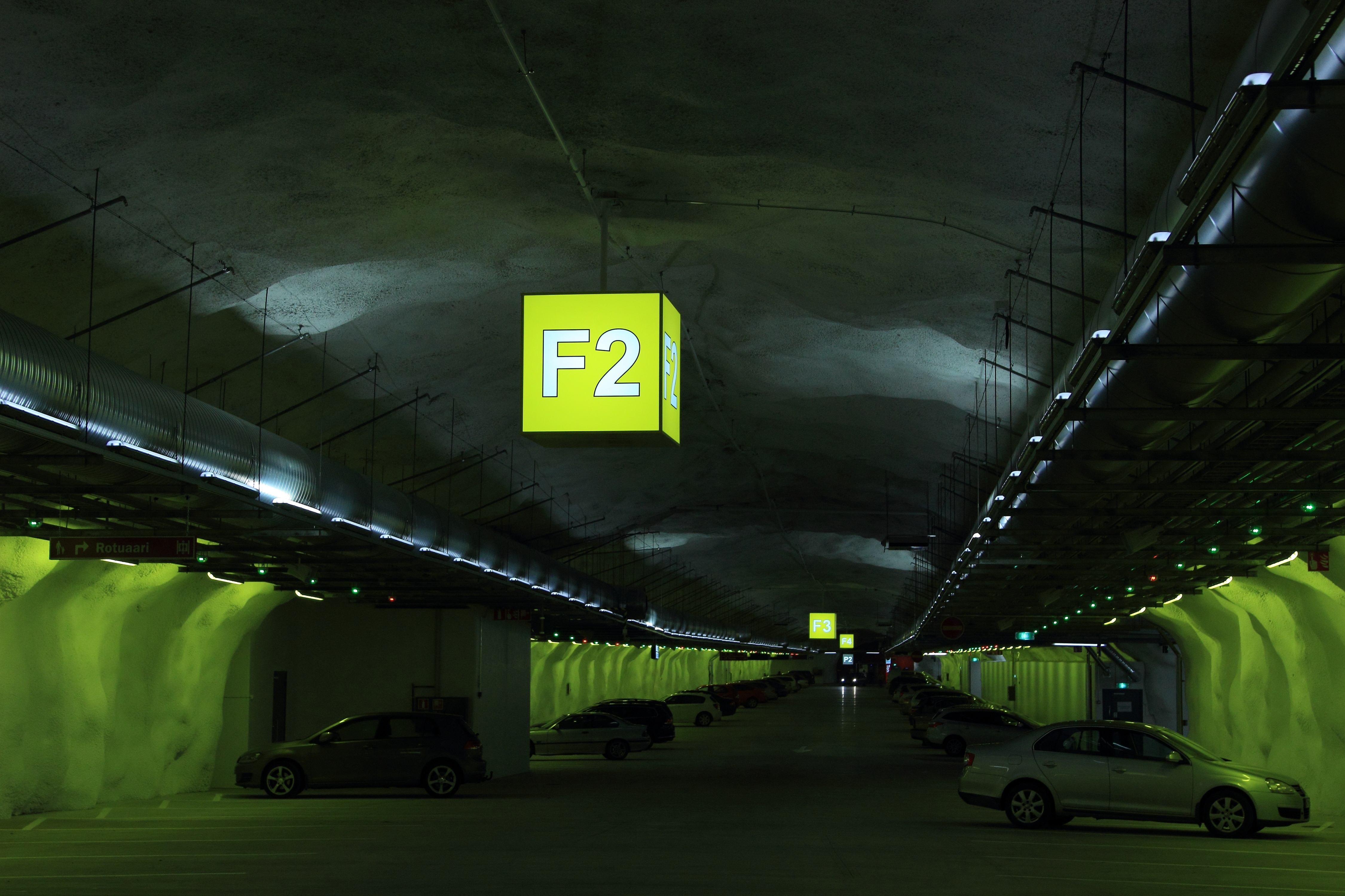 Interior of Kivisydän underground car park in Oulu.